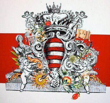 Coats of arms, Republic of Ragusa